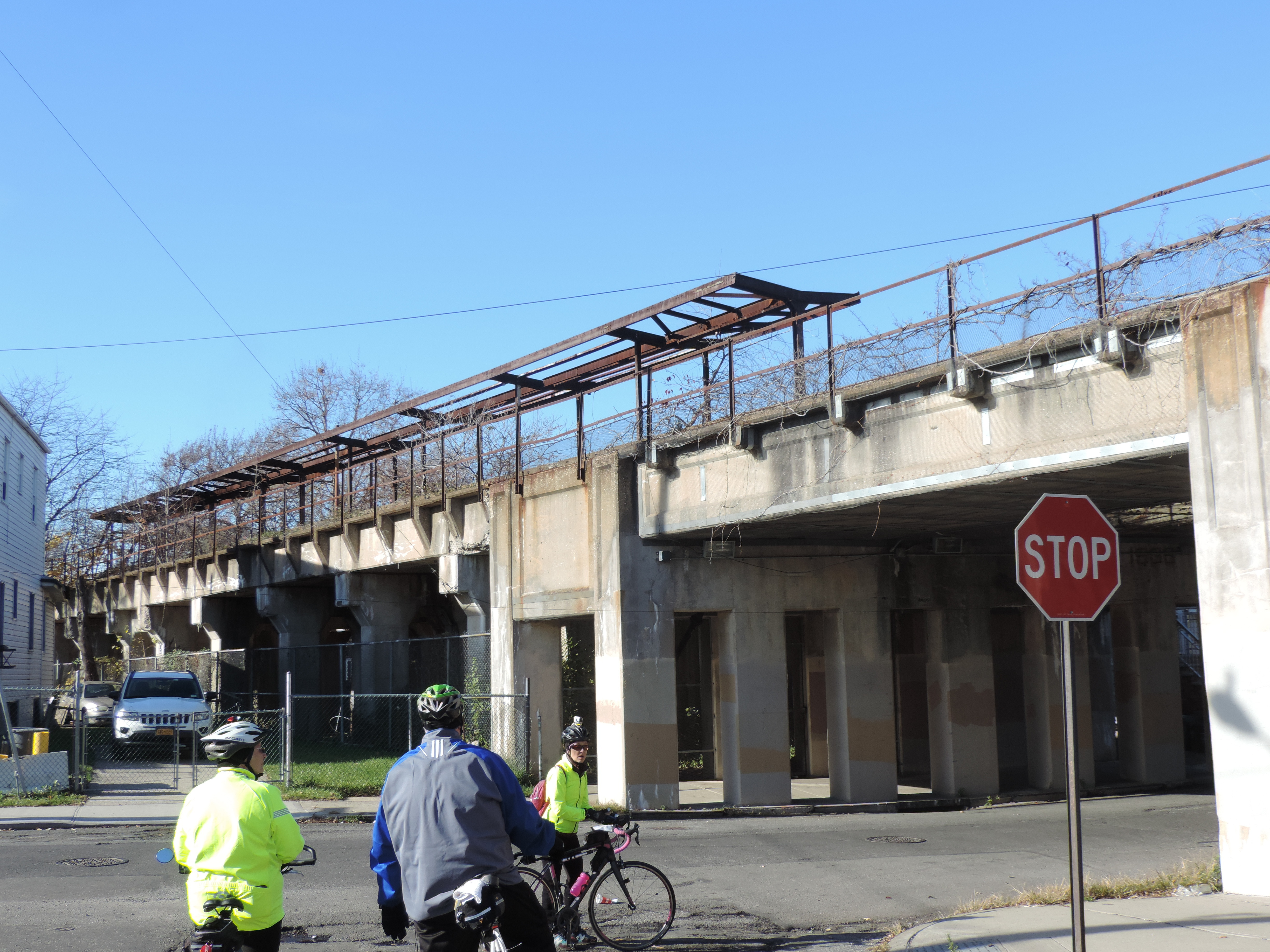 Looking northwest from Grove Street on a sunny early afternoon